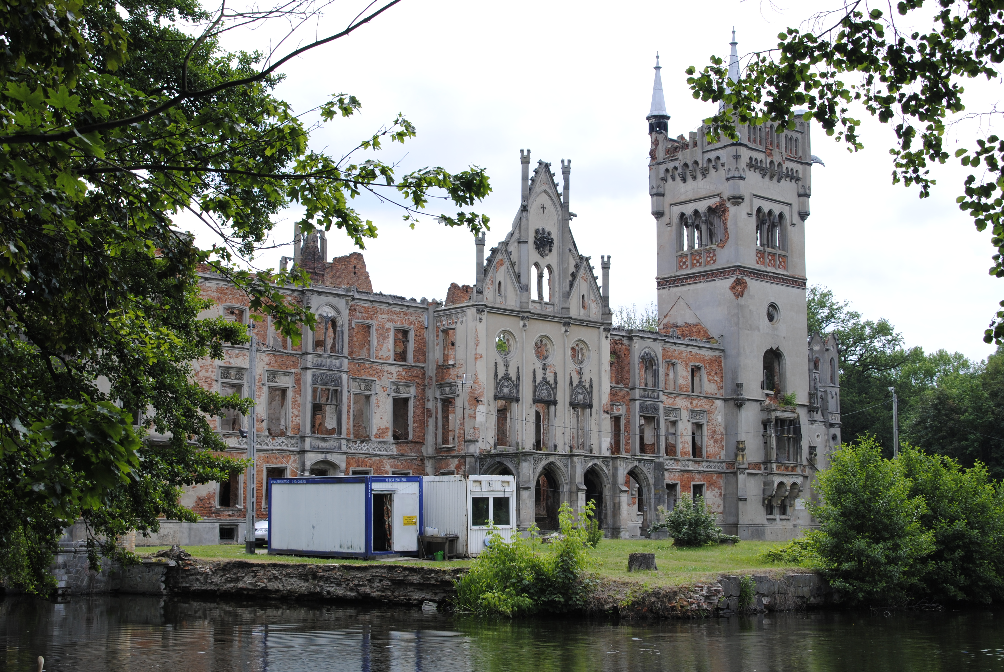 Palace in Kopice, Opole Voivodeship